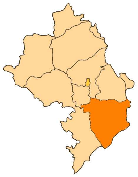 Location of Hadrout in NKR